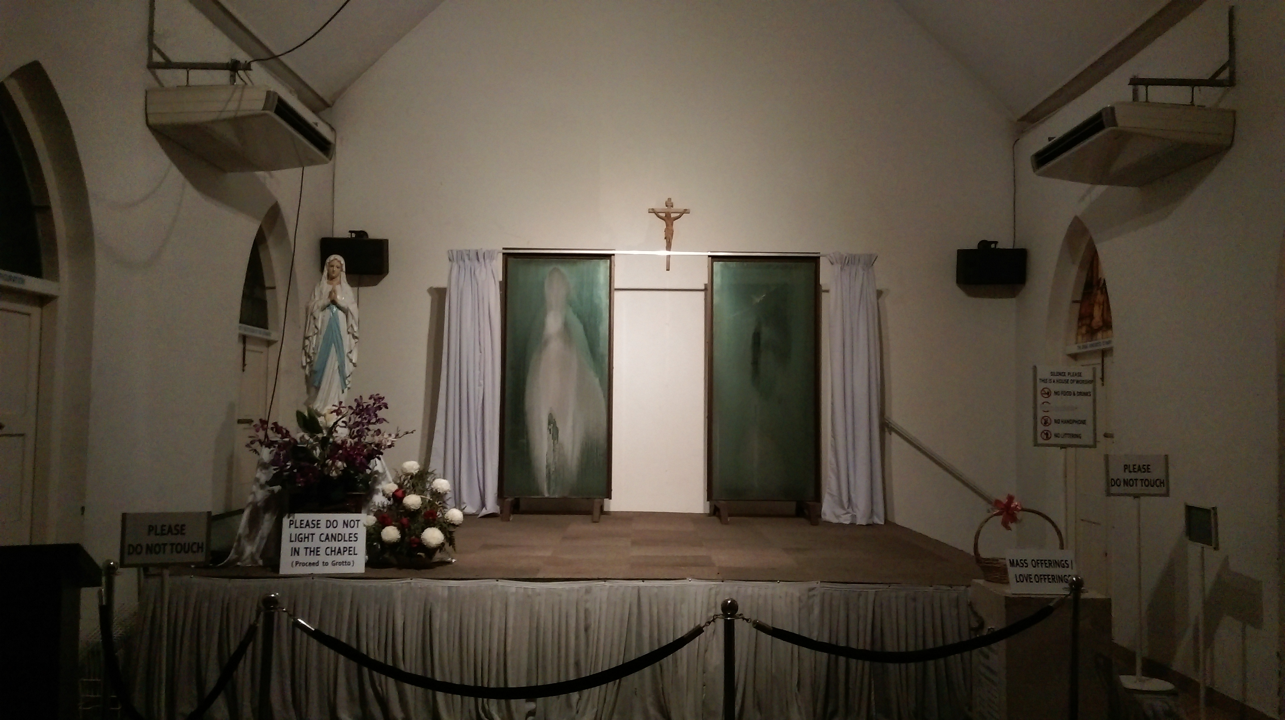 Glass Panel believed to show the Virgin Mary apparition.